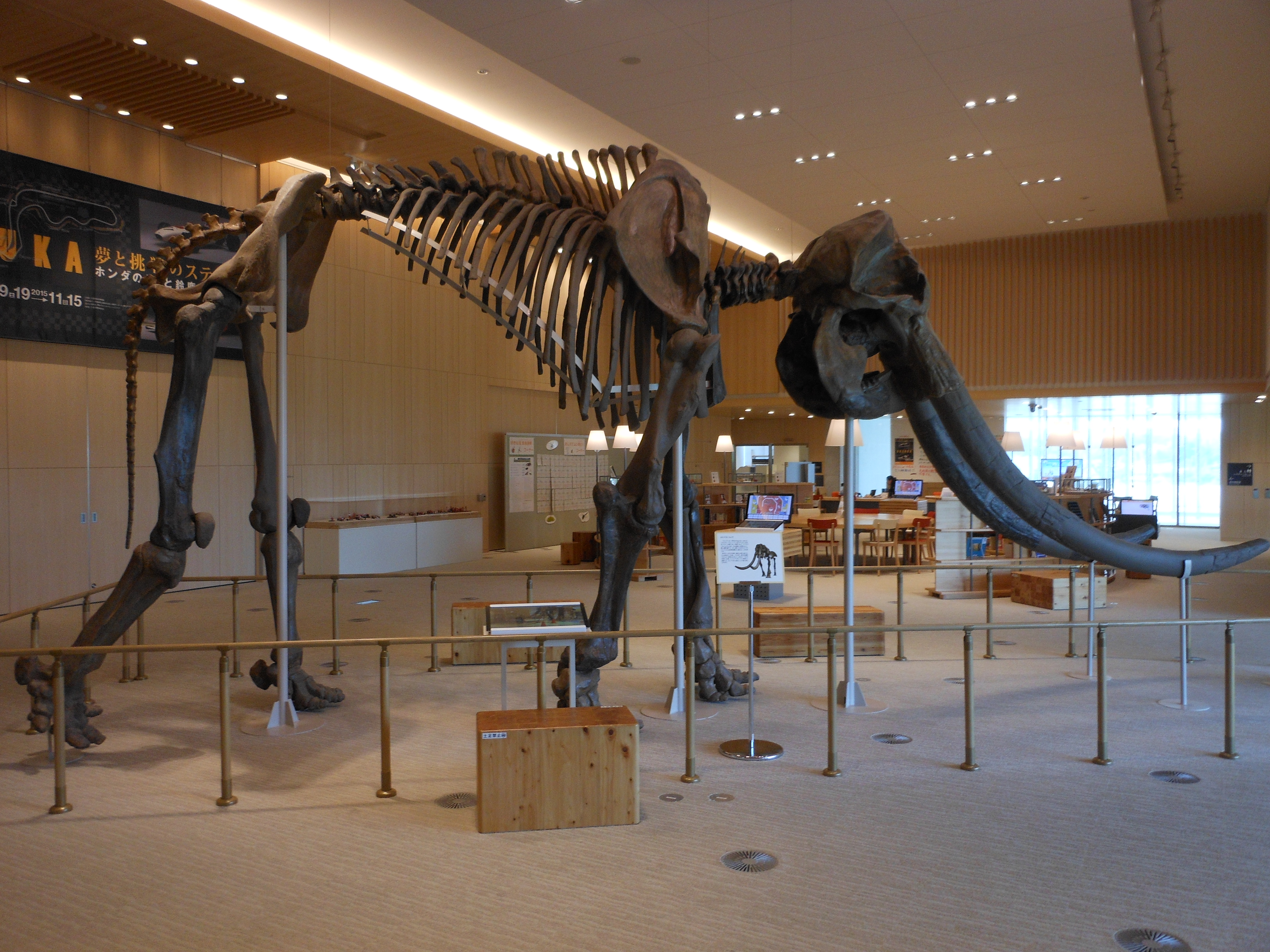 These are skeletons of Stegodon miensis. It is exhibited in Mie prefectural museum.